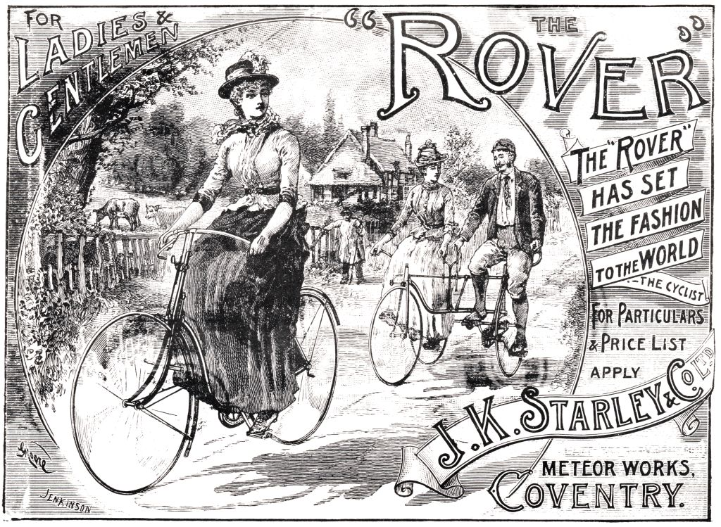 Advert for J K Starley Rover bicycles